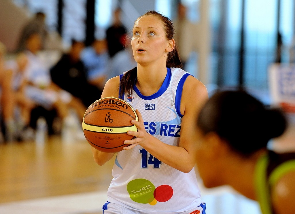 Sabīne Niedola